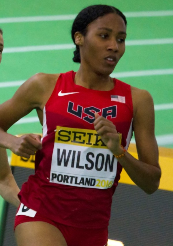 319 halve finales 800m